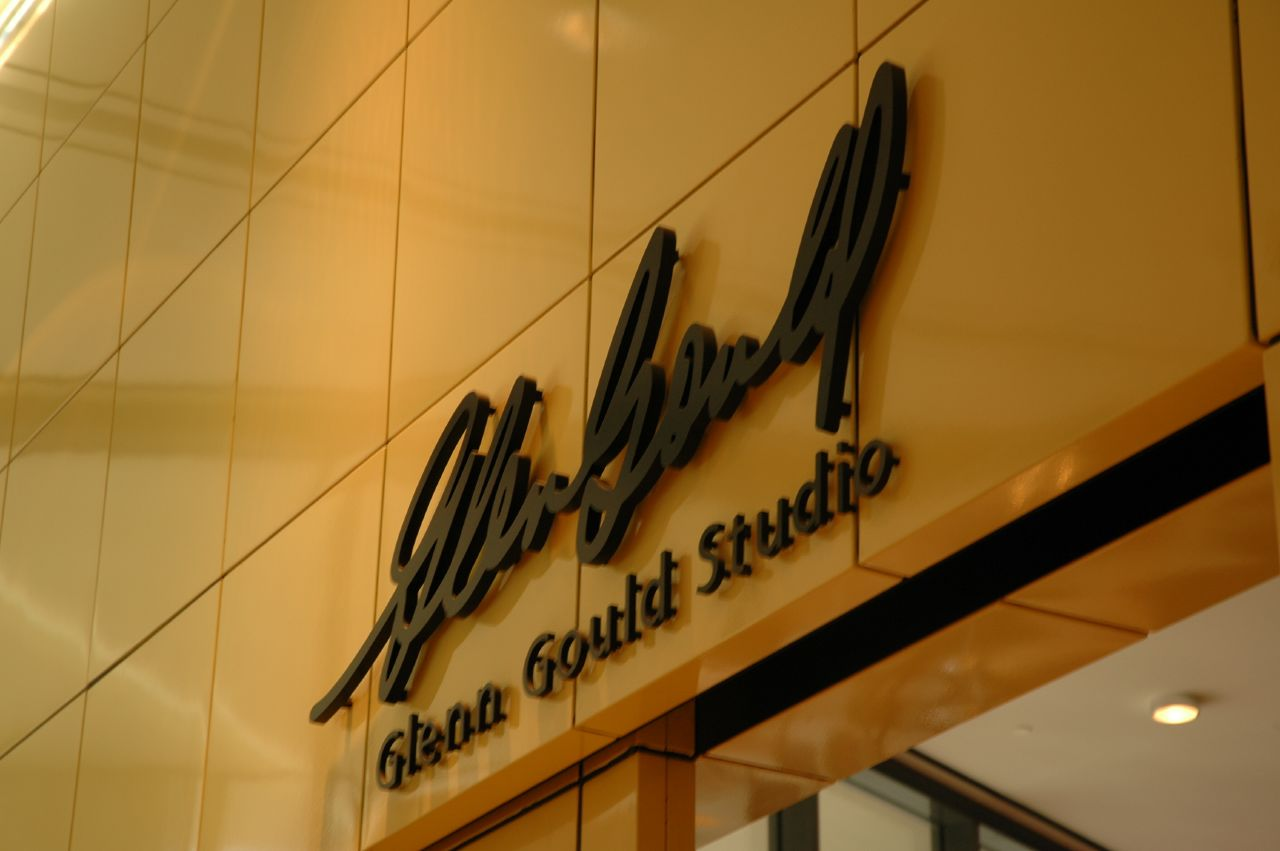 Signage at Glenn Gould studio, CBC Building, Toronto